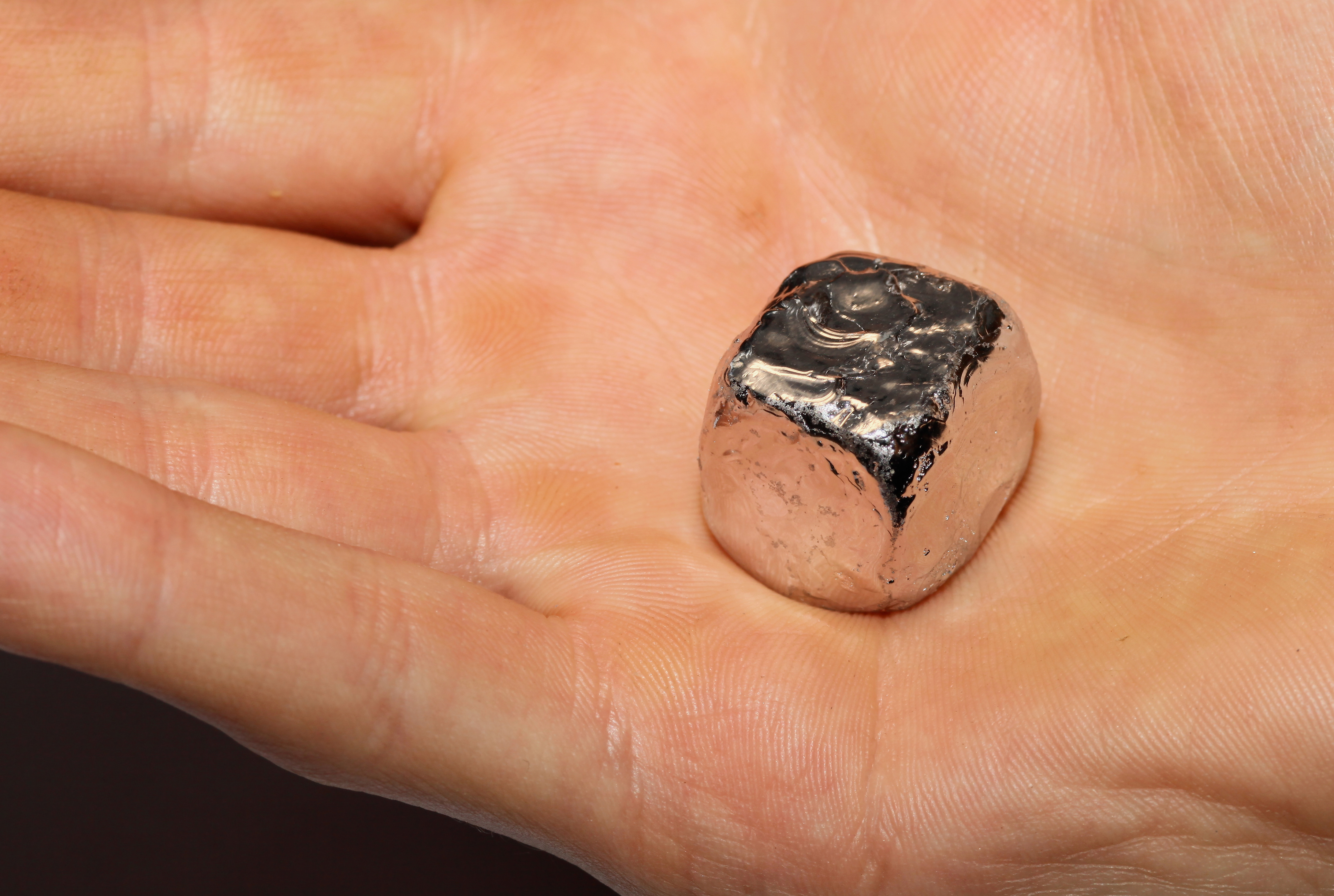 The chemical element Rhodium. A 78 g cuboid sample, melted with a propane/oxygen welding torch, worth several thousand US$ at the time it was photographed.